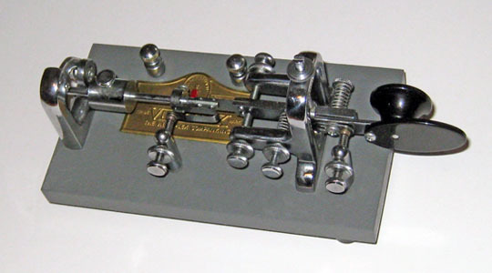 Viborplex bug